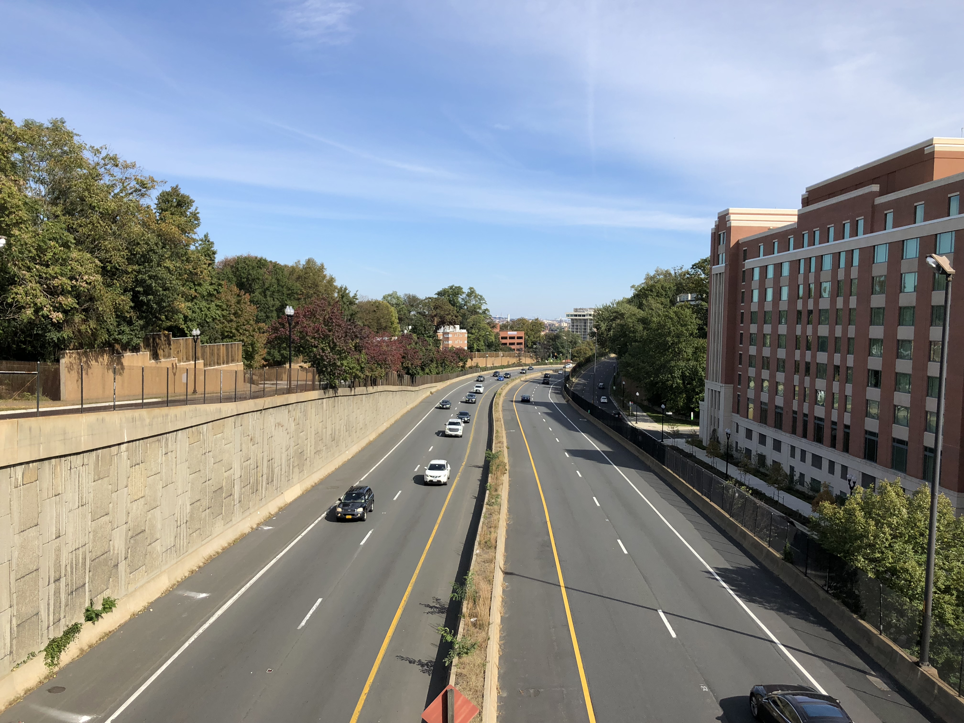 View east along Interstate 66 (Custis Memorial Parkway) from the overpass for North Scott Street in Arlington County, Virginia